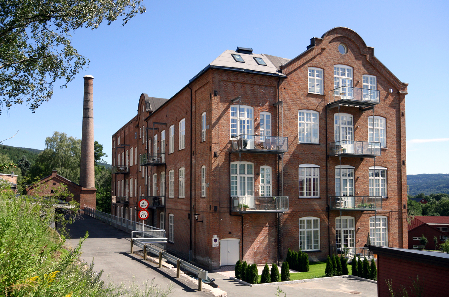 Solberg Spinneri (spinning mill), Nedre Eiker, Norway. Now converted into flats.